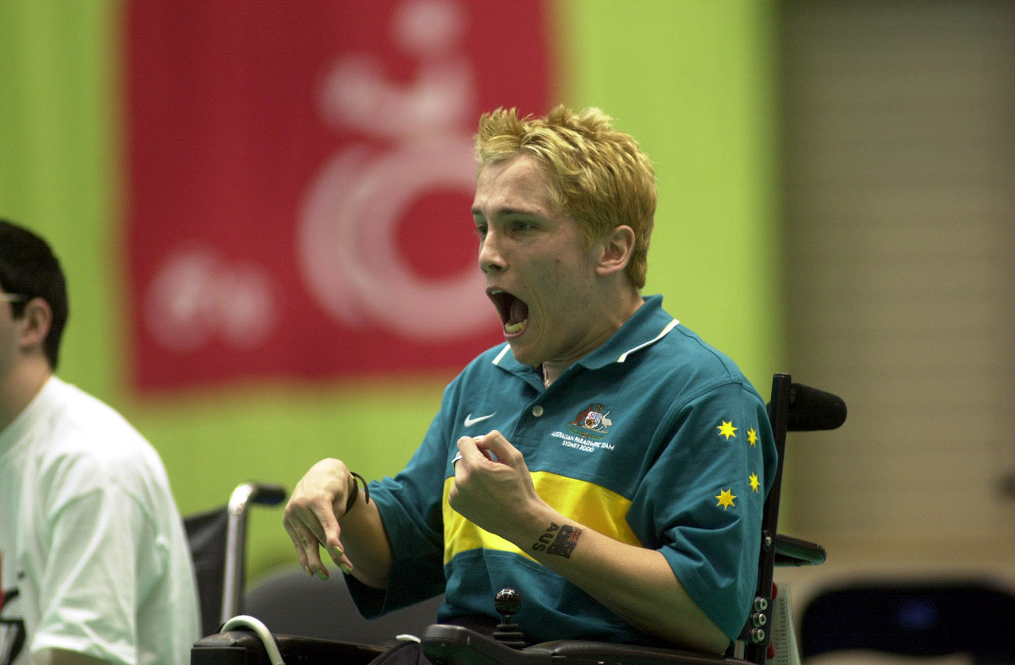 Australian boccia player Scott Elsworth during 2000 Sydney Paralympic Games match